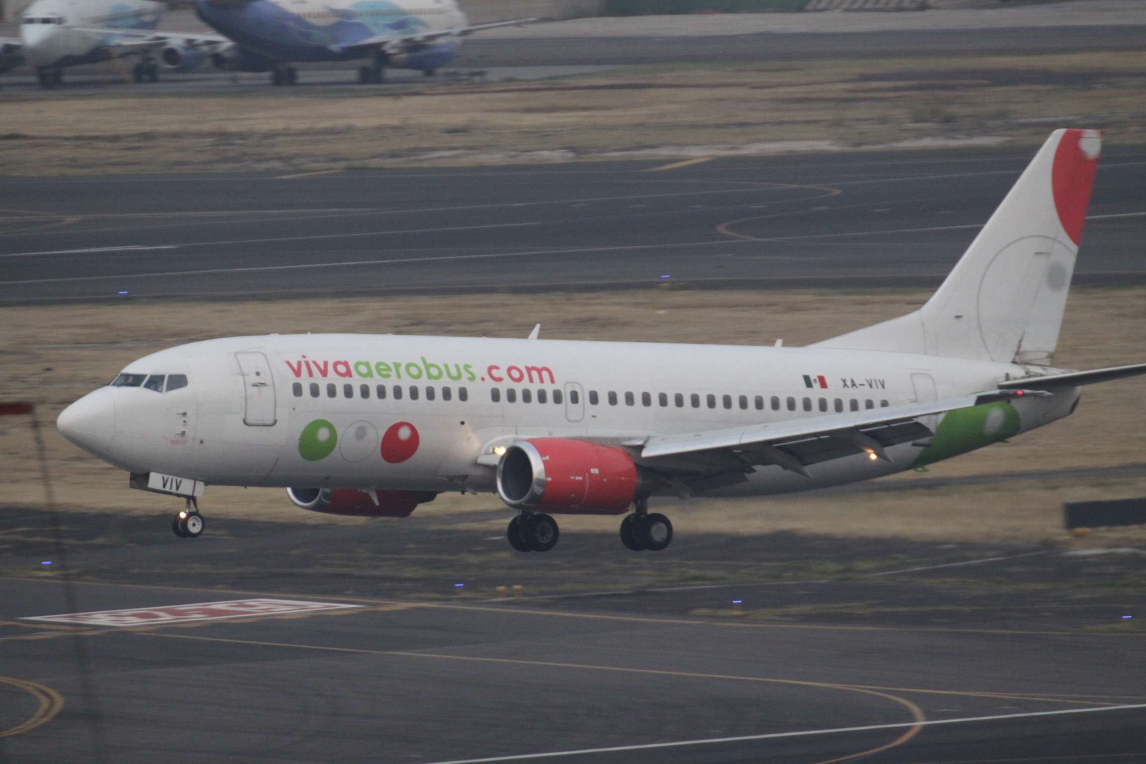 At Mexico City International Airport